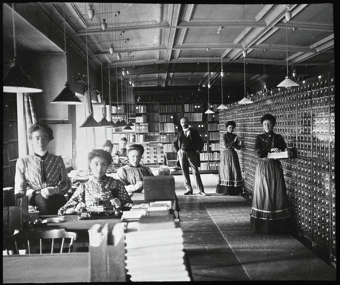 Photograph of the staff of the International Institute of Bibliography, writing and classifying records